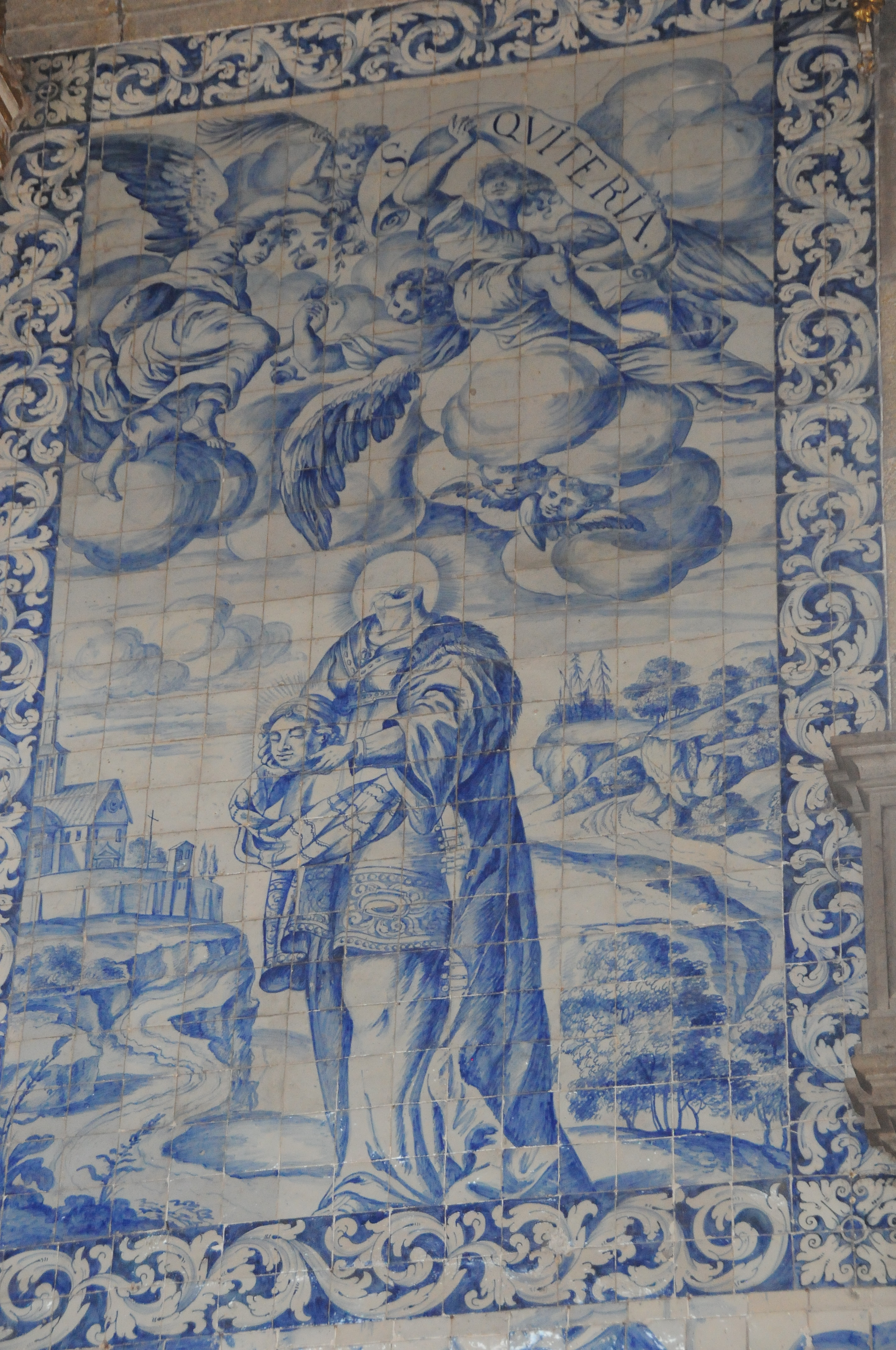 Church of São Vítor in Braga, Portugal.